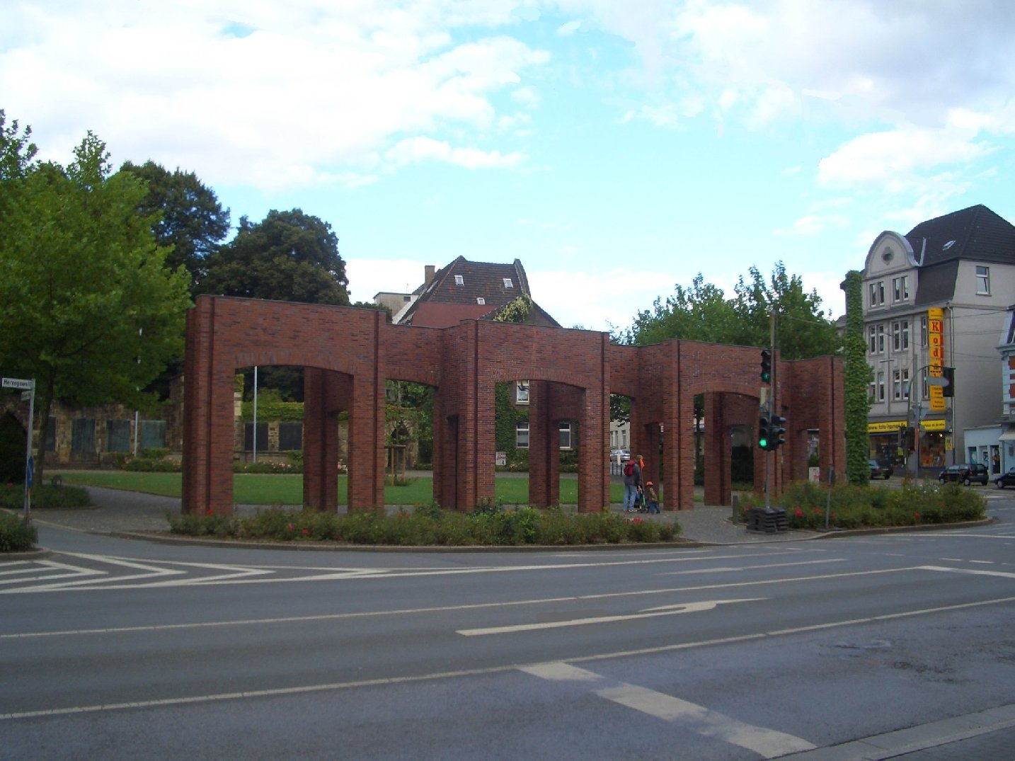 Brick sculpture of Per Kirkeby, Recklinghausen, Germany.